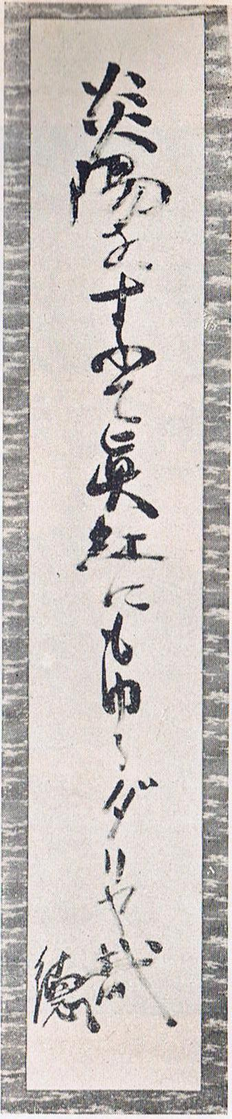 TAKAKURA Tokutaro Haiku Dahlia, 1929 August